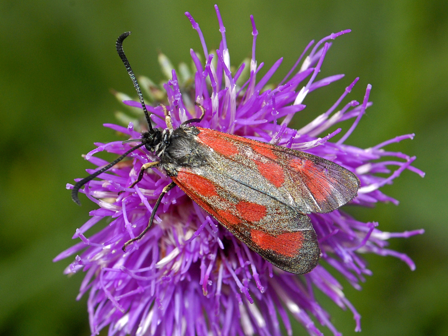 Zygaena loti. Val di Rhemes, Aosta, Italy